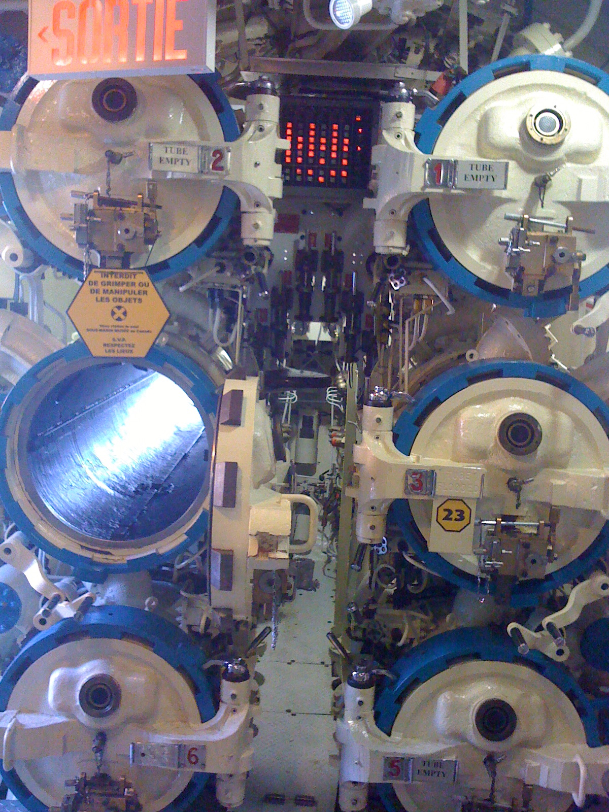 The six torpedoes tubes situated in the bow of HMCS Onondaga.